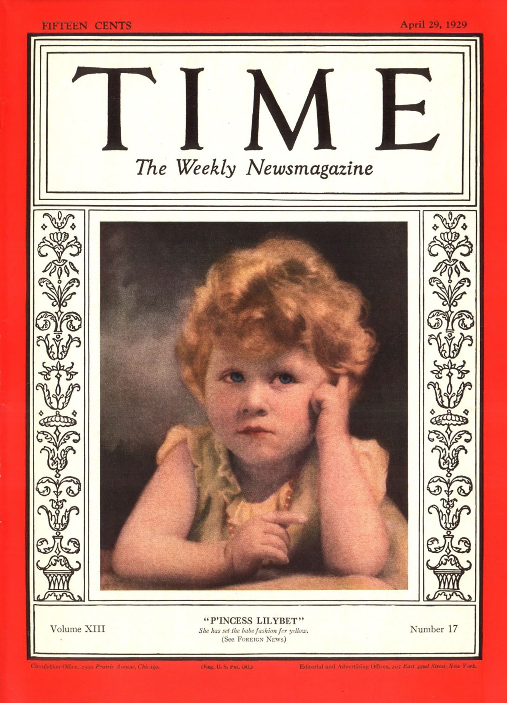 Elizabeth of York (the future Queen Elizabeth II) on the cover of the Time magazine, April 29, 1929.